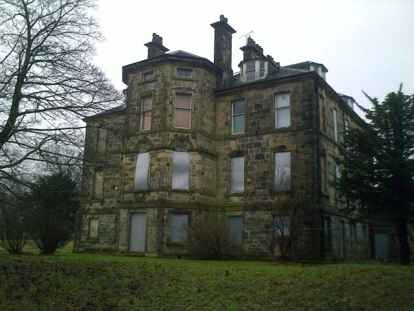 Back view of Cumbernauld House